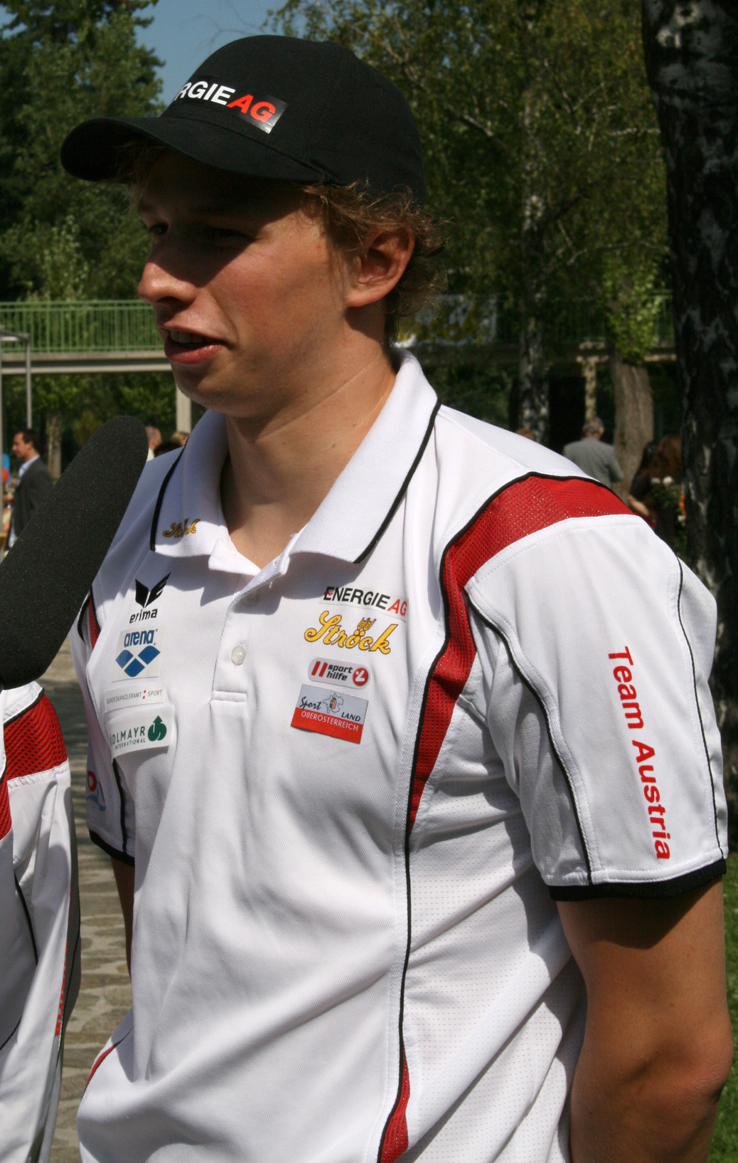 Swimmer David Brandl at the presentation of the Austrian team for the 2008 Summer Olympics in China (Strandbad Gänsehäufel, Vienna)